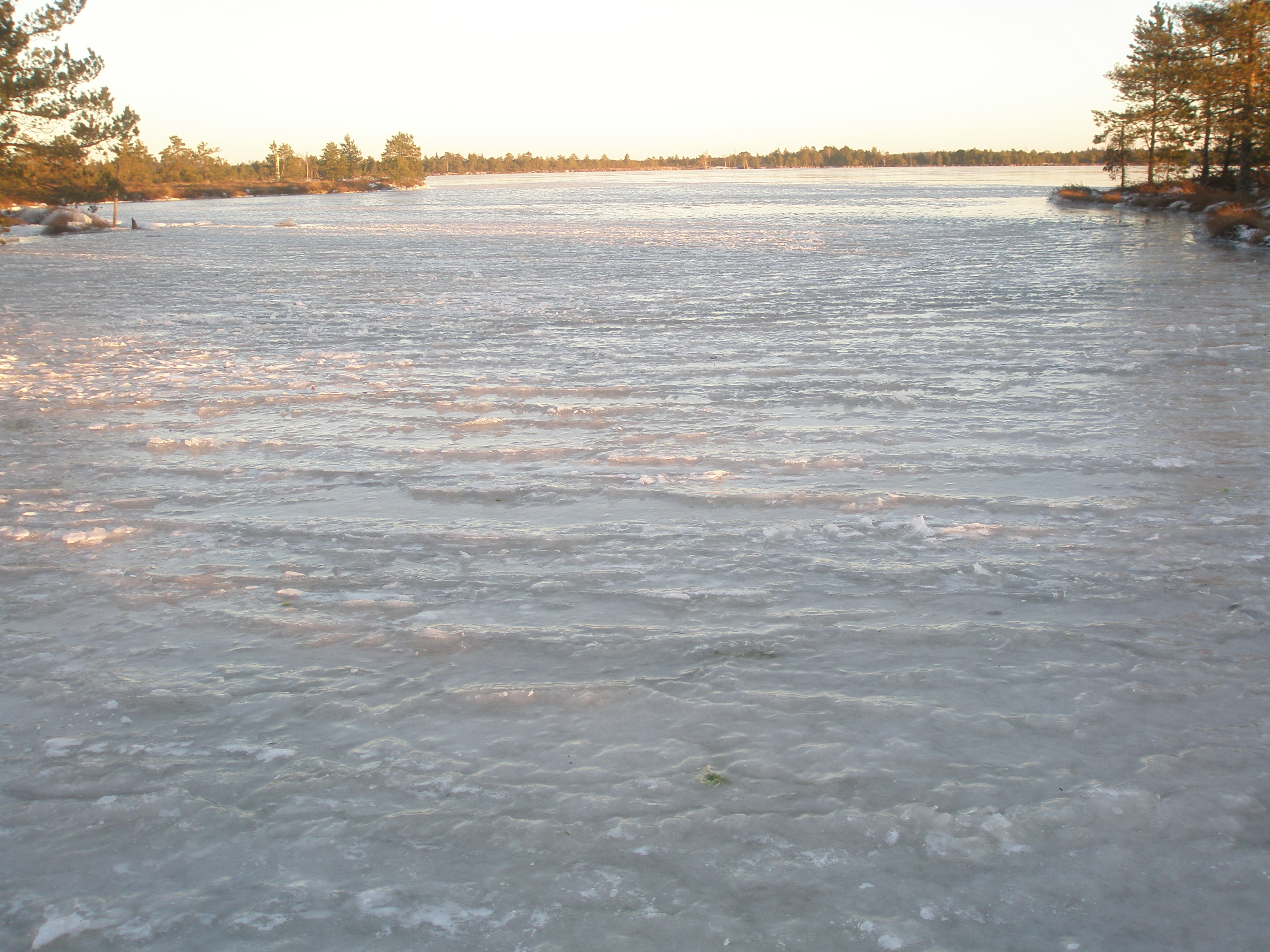 Frozen lake Loosalu